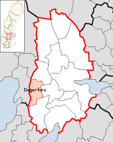 Degerfors Municipality in Örebro County Designd by me, based on Image:Örebro County.png